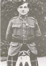 Depicted person: William Henry Metcalf – Recipient of the Victoria Cross